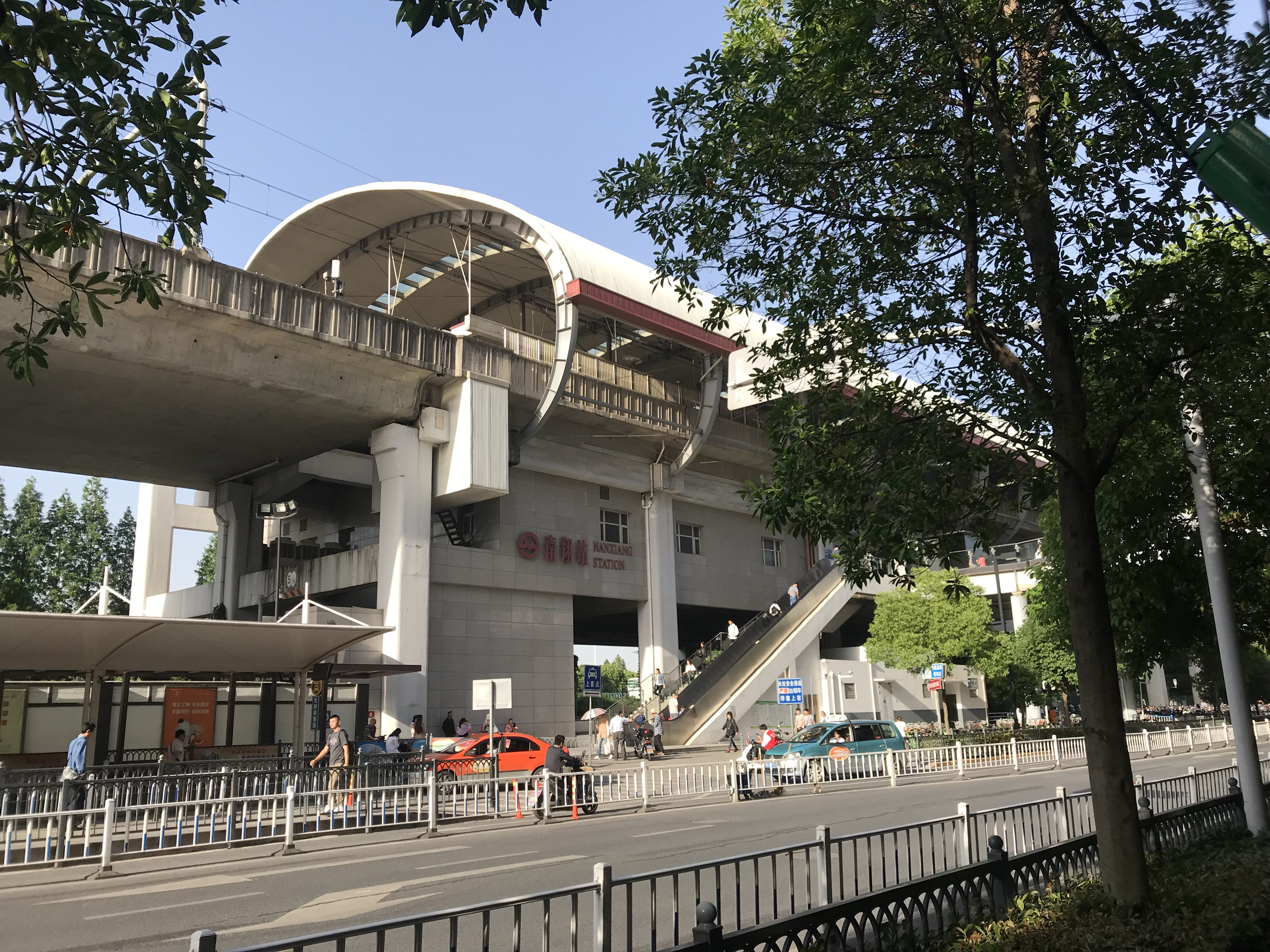 201805 Station Building of Metro Nanxiang Station